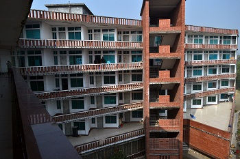 Boys Hostel, Eastern Medical College, Cabila, Comilla, Bangladesh, Dhaka-Chittagong Highway